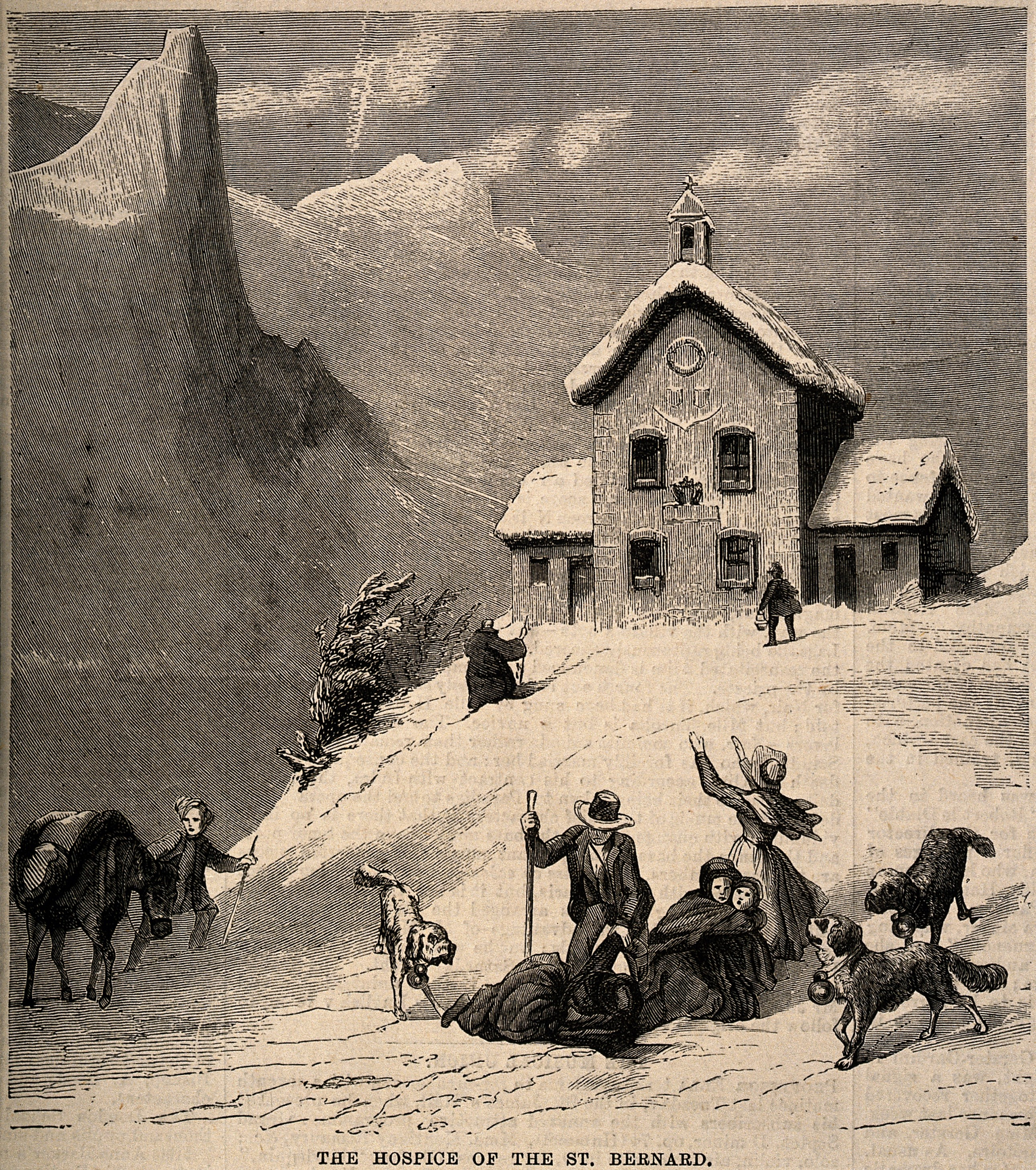 Convent of Great St. Bernard, Switzerland/Italy: rescue dogs gathering outside around wounded travellers. Wood engraving. Iconographic Collections Keywords: St Bernard